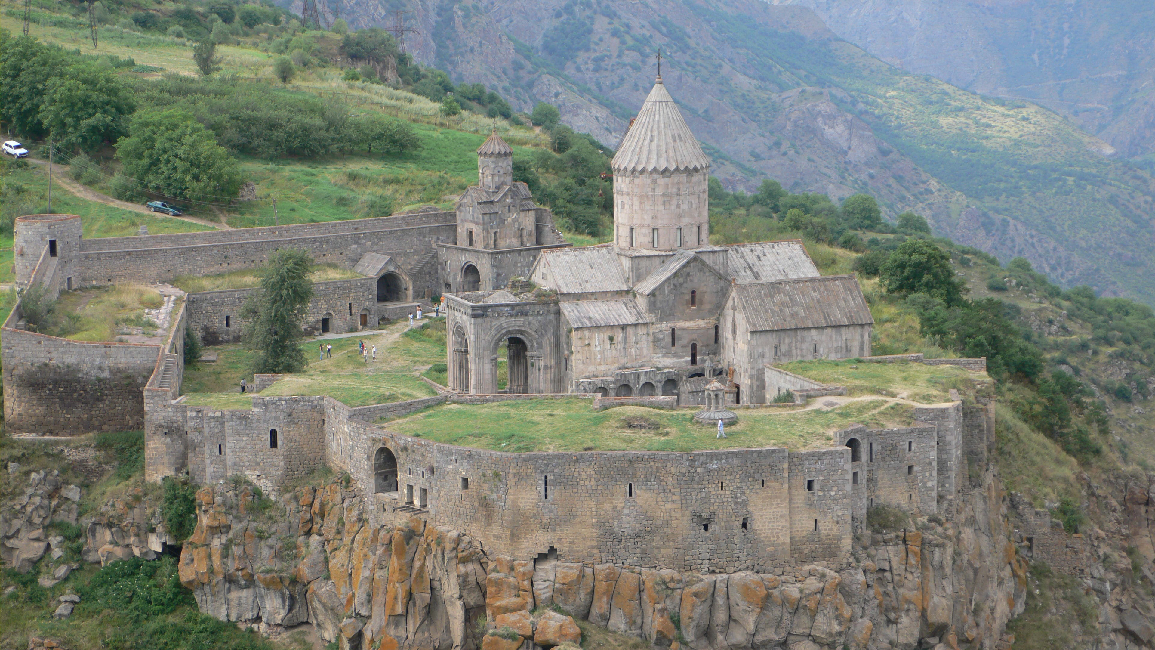 Tatev Monastery. Syunik, Armenia. Photo taken by Eupator.